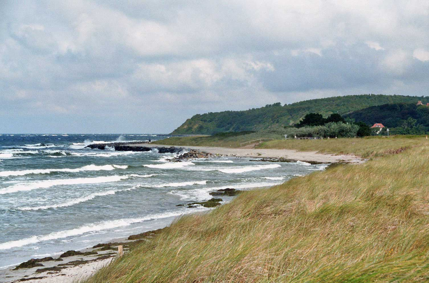 West coast of Hiddensee.